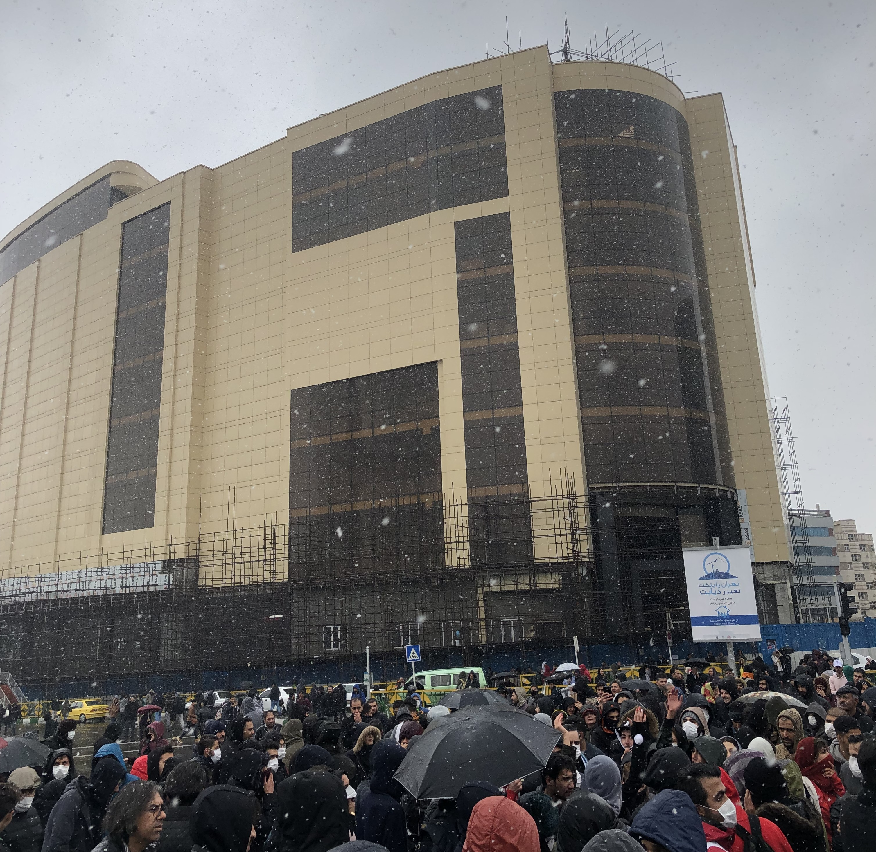 2019 Iranian protests